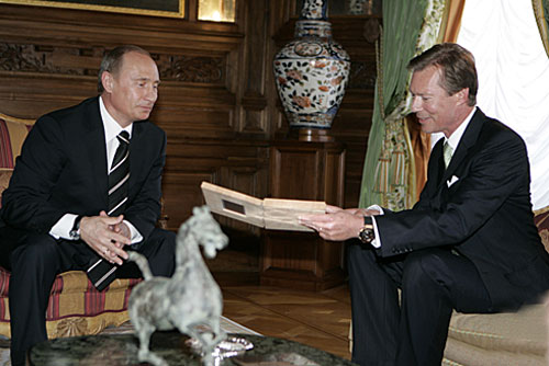 LUXEMBOURG. Conversation with Grand Duke Henri of Luxembourg.